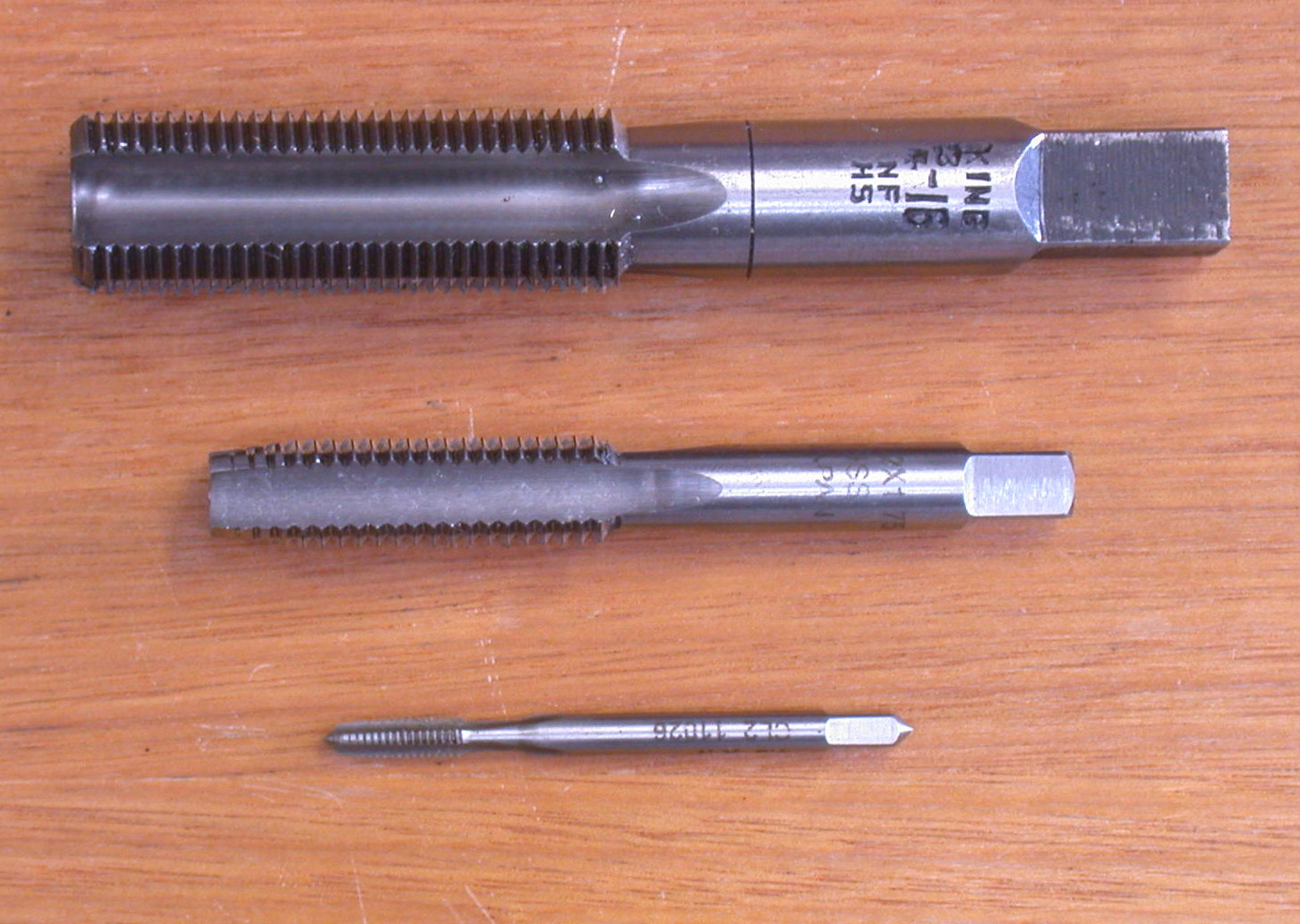 Threading taps in three different sizes and styles (bottoming, intermediate, taper)